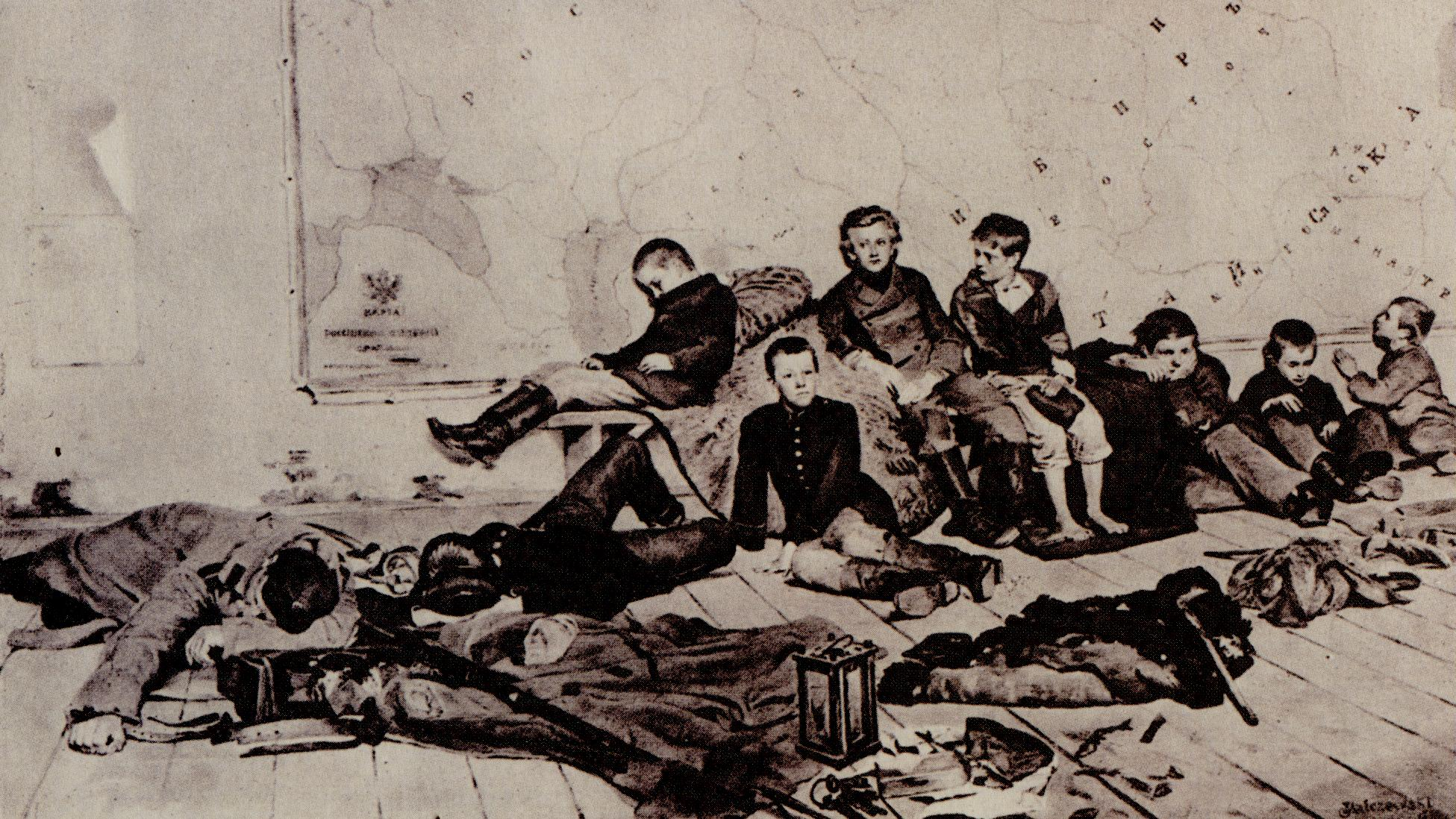 Black and white reproduction of 'Zesłanie Studentów' (Students Exile) by Jacek Malczewski from 1891[1]. The painting has inspired Jacek Kaczmarski to create a song with the same title.